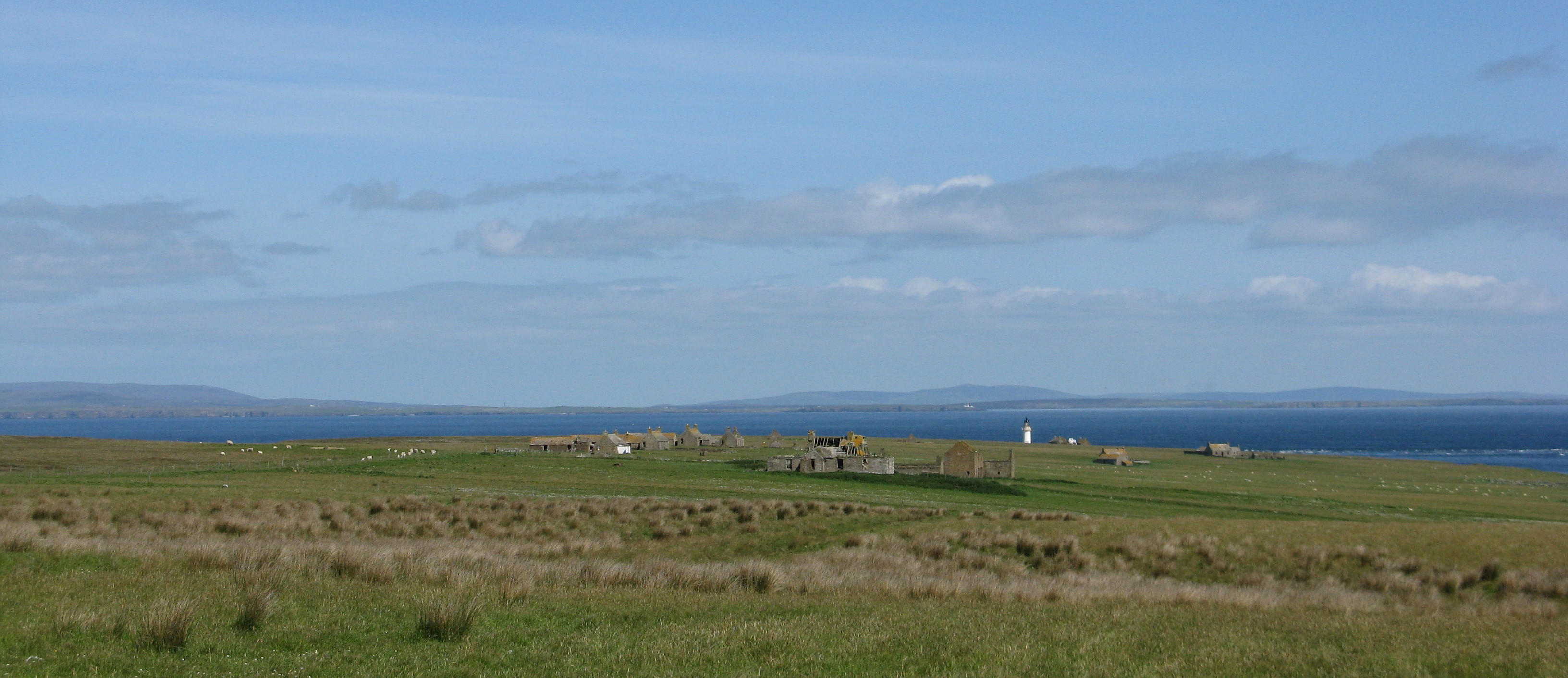 Looking northwards towards Orkney from near the schoolhouse on Stroma. Mains of Stroma and houses of Nethertown and the top of the lighthouse.